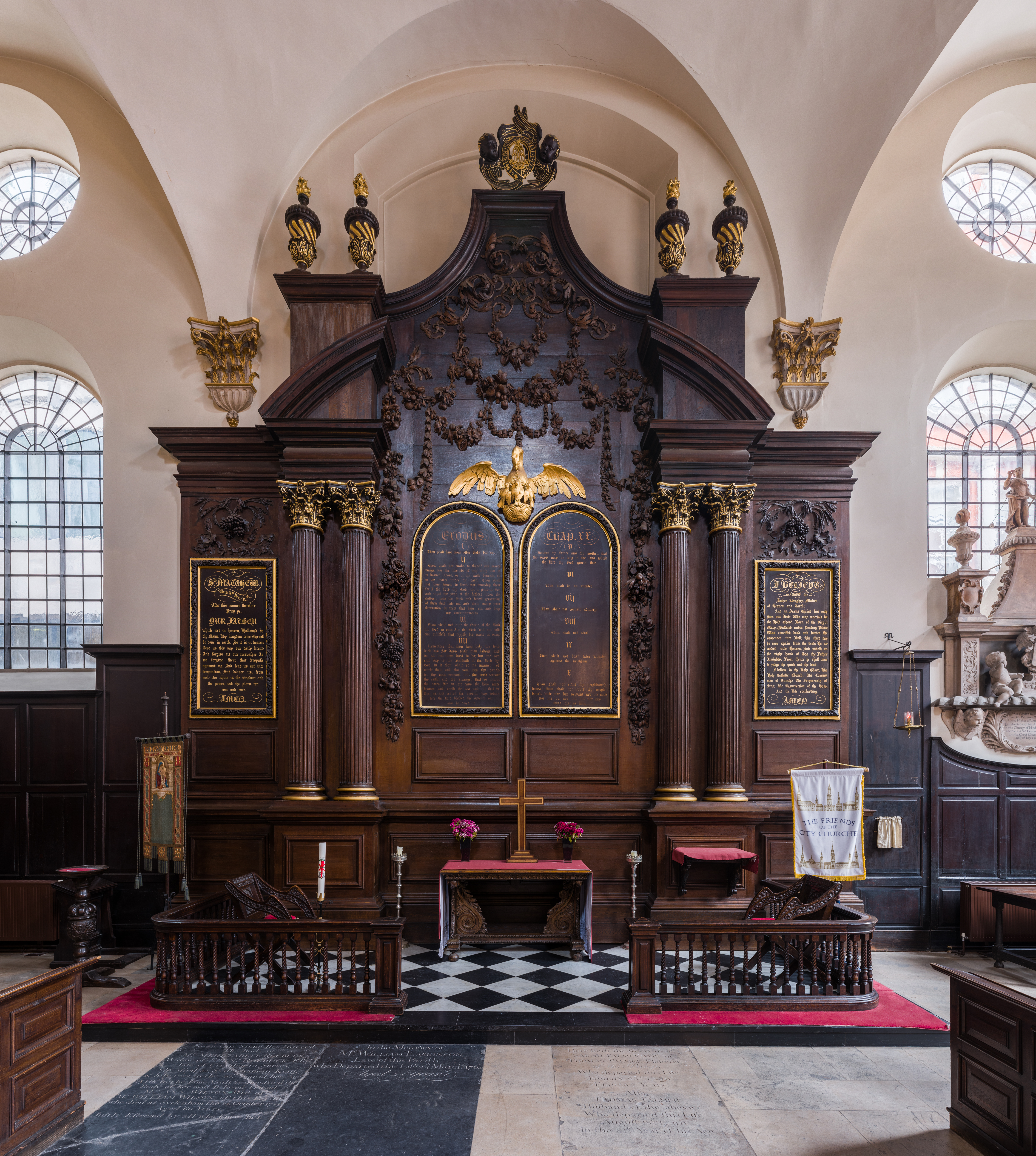 The grand altar-piece of St Mary Abchurch, London, carved by Grinling Gibbons